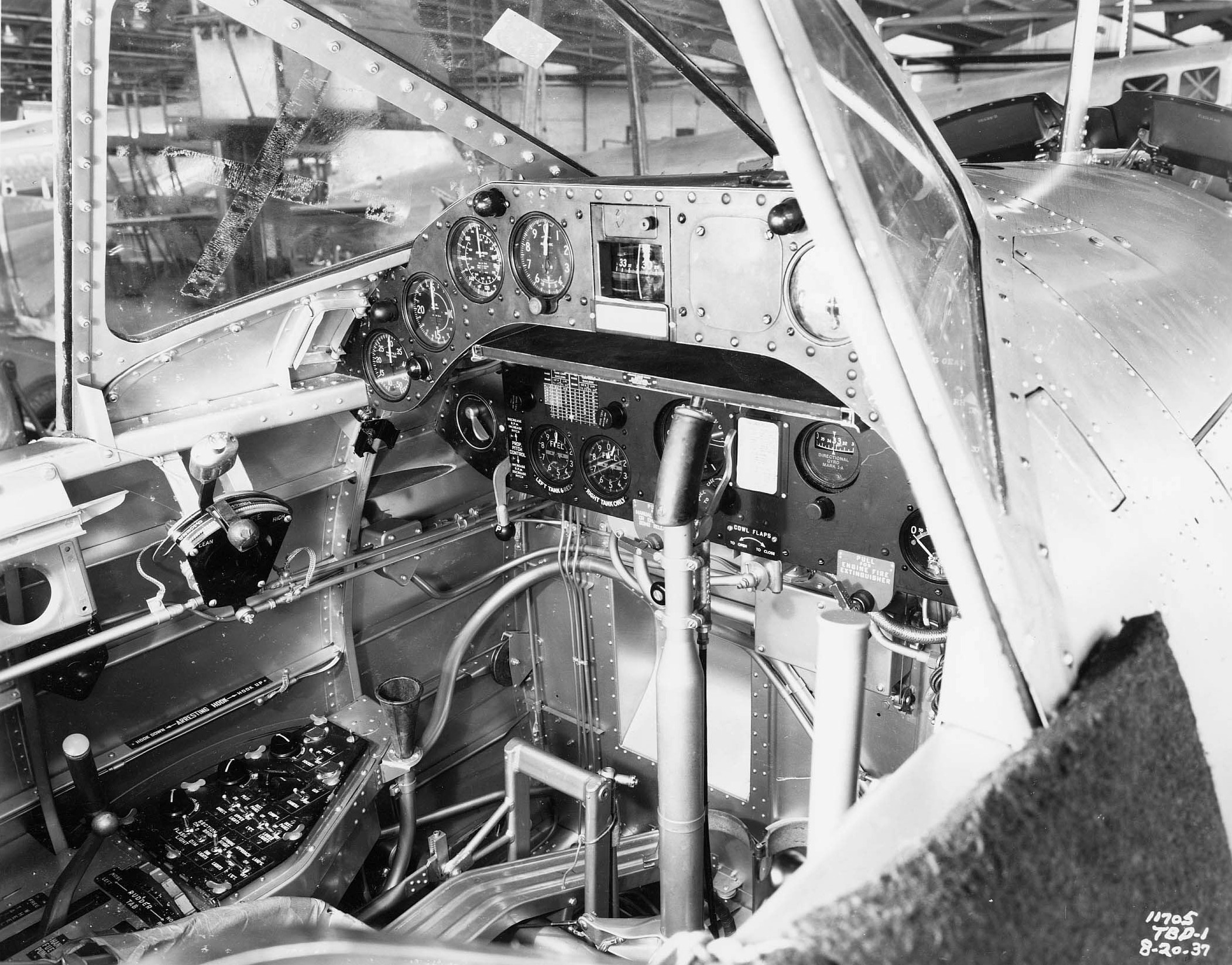 Left side view of the pilot's cockpit of a U.S. Navy Douglas TBD-1 Devastator torpedo bomber, 20 August 1937.